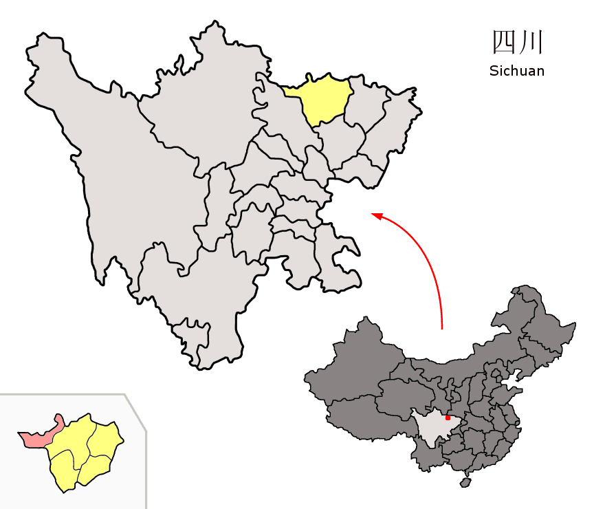 Location of Qingchuan County (pink) and Guangyuan Prefecture (yellow) within Sichuan province of China Map drawn in october 2007 using various sources, mainly : Sichuan province administrative regions GIS data: 1:1M, County level, 1990 Sichuan Counties map from